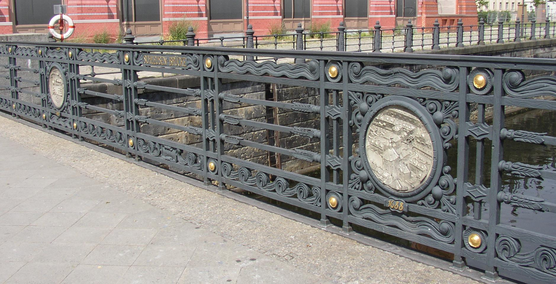 „Schleusenbrücke“ (lock bridge) in Berlin-Mitte, Germany with medallions by sculptor Kurt Schumacher